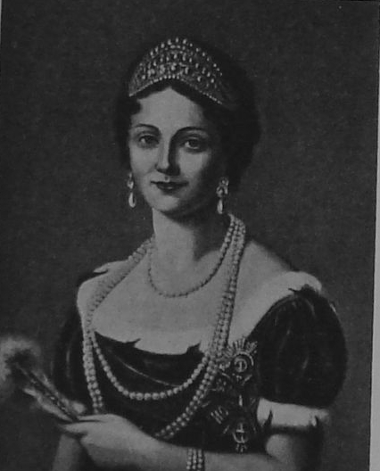 Catherine Pavlovna of Russia